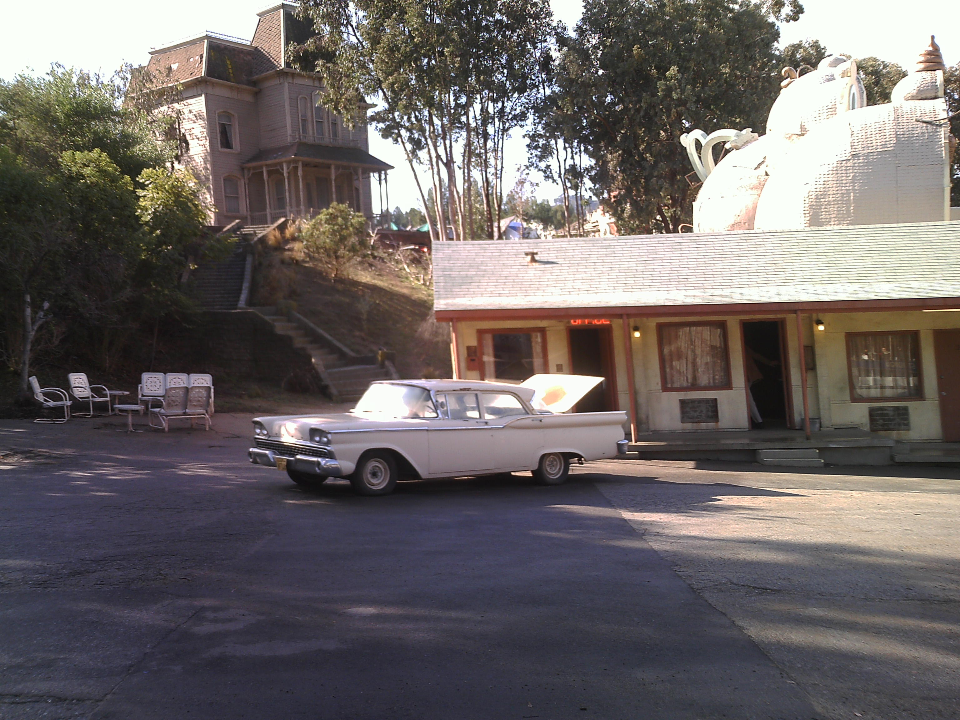 The set of the movie Psycho at the Universal Studios Hollywood